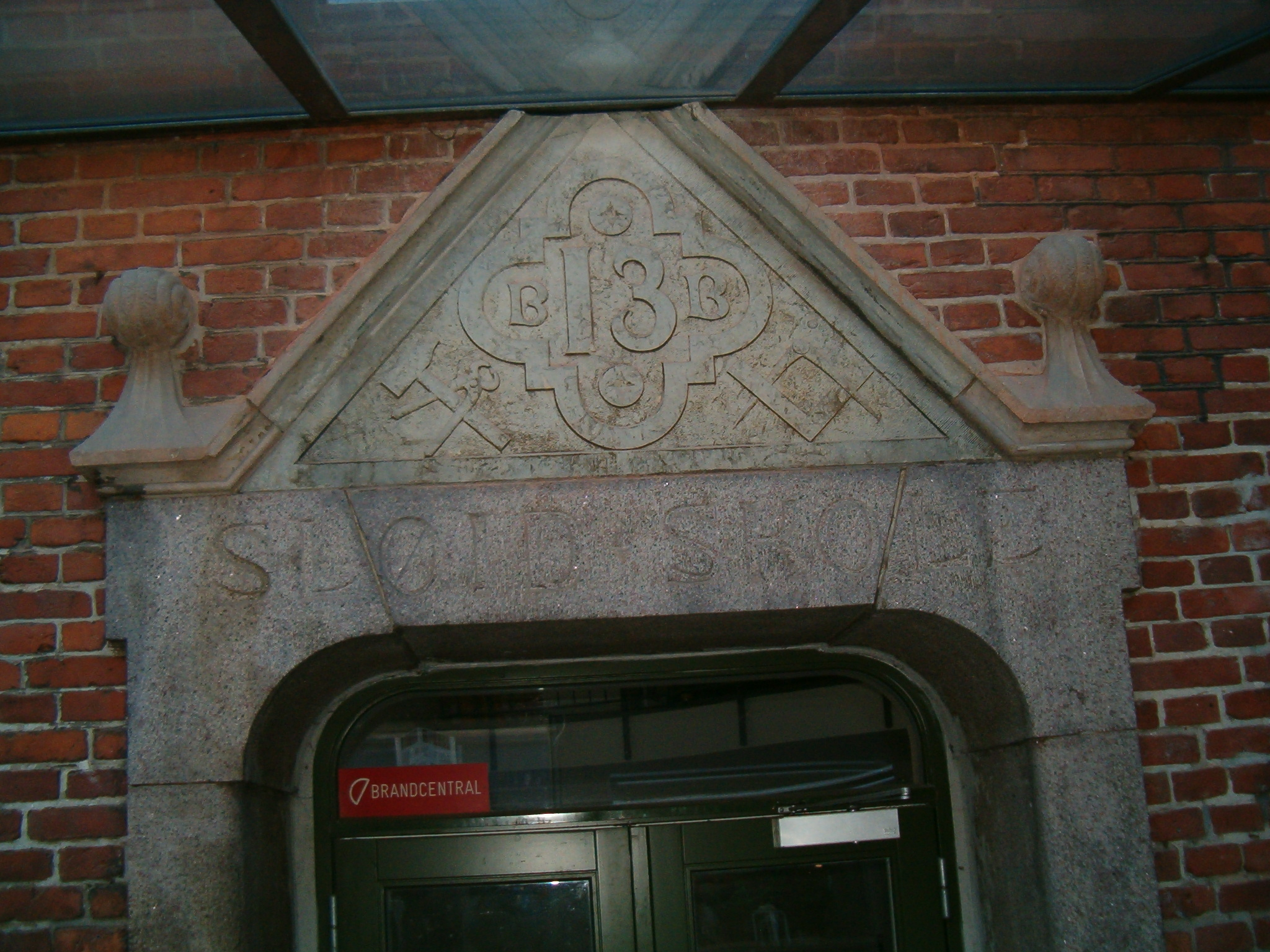 Entrance of the old Dansk Sløjdlærerskole at Værnedamsvej 13 B